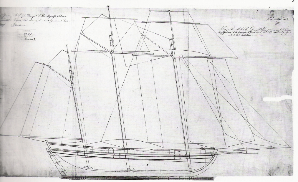 Architectural drawing of the Flying Fish, a ship used by the Royal Navy. Architectural drawing of the clipper Flying Fish shows a mixture of square and gaff rigs. Bermuda sloops were used by the navy in combatting French privateers, and as advice vessels, carrying communications and important materials. Inspired by the success of American privateers, however, the Admiralty used the Baltimore clipper Flying Fish as the model for a class of sloops, placing orders with boat builders in Bermuda and Britain. Although the American schooner's developments had been influenced by Bermudian vessels and builders, they were intended as coastal vessels, and were shallower drafted than comparably sized Bermudian designs (which were intended for the open ocean).